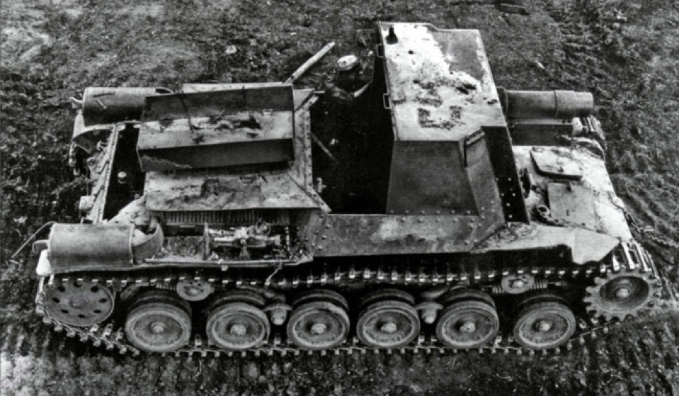 Top-angle, side view of Type 4 Ho-Ro